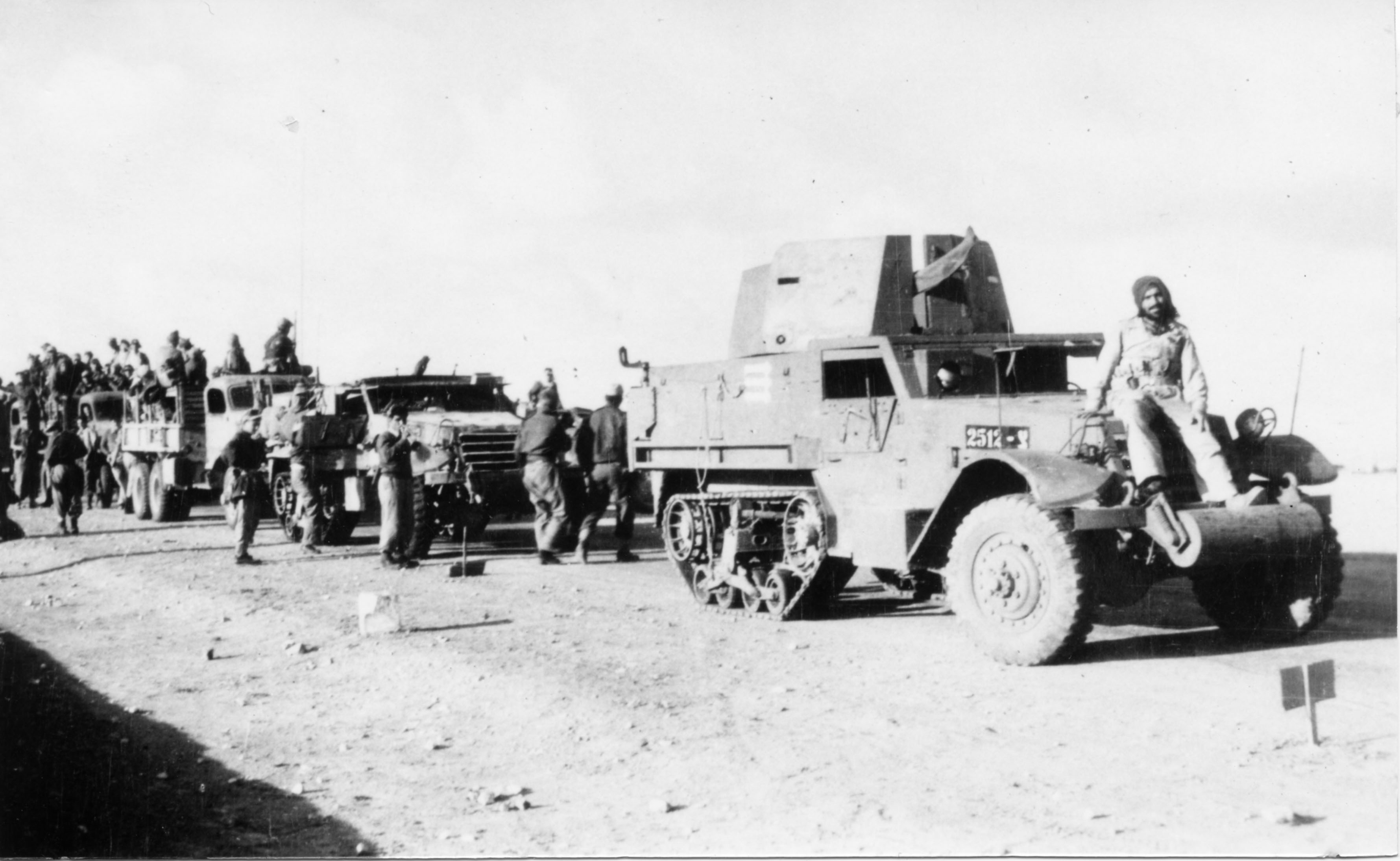 The Palmach, Israel Defense Forces